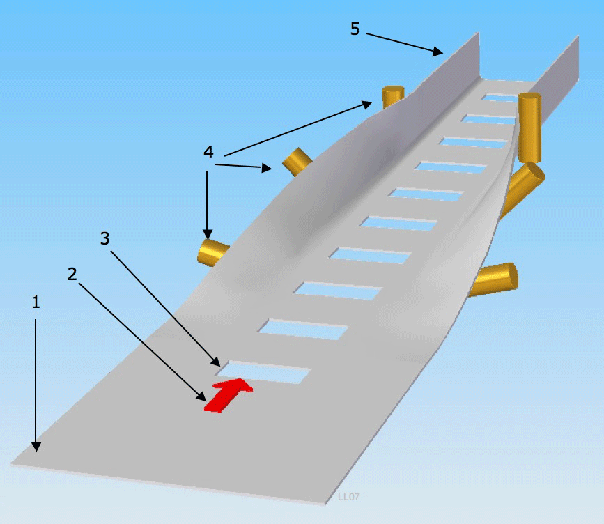 Roll forming process.